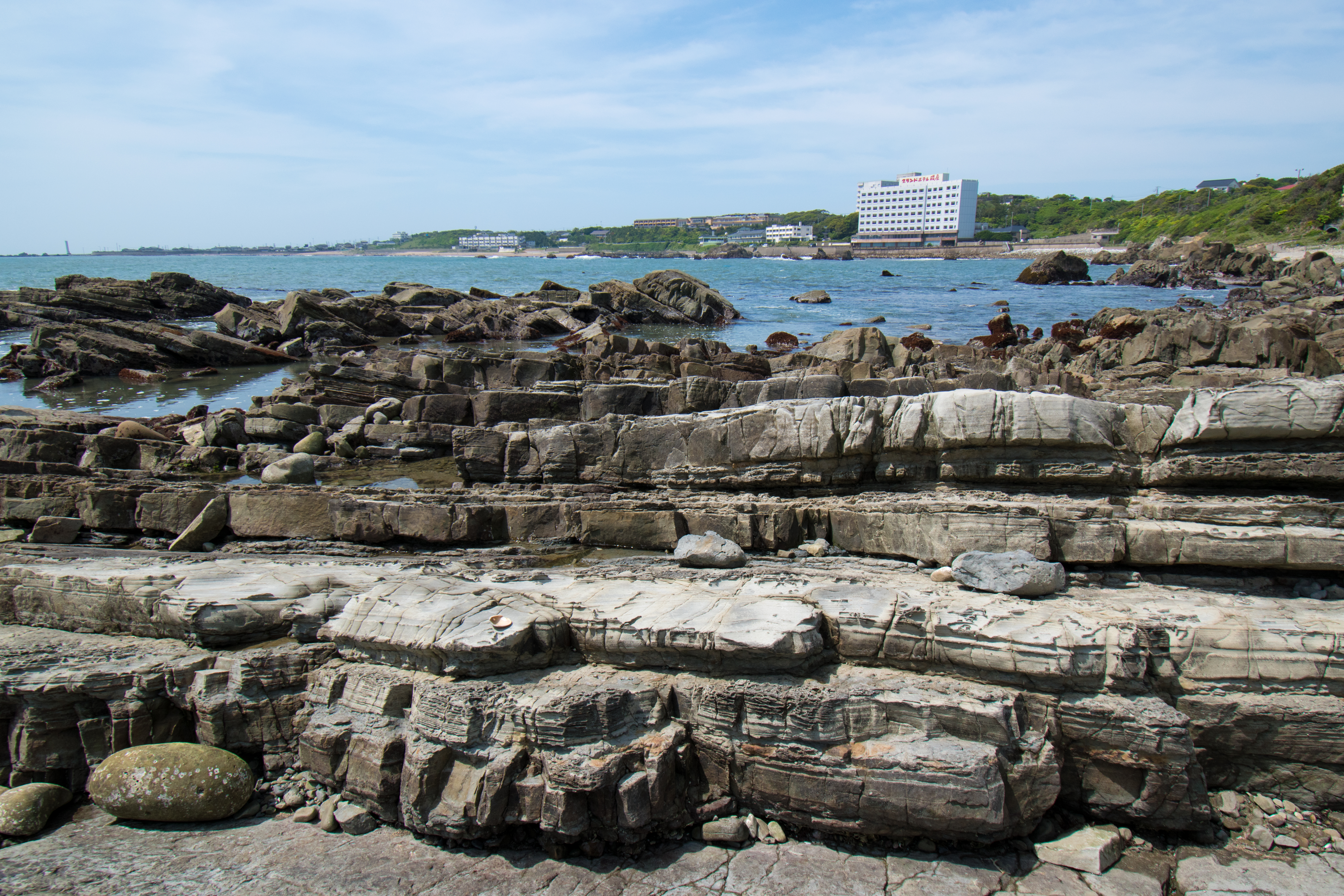 sandstone-mudstone alternation at Cape Inubō, Chōshi City, Chiba Prefecture, Japan.